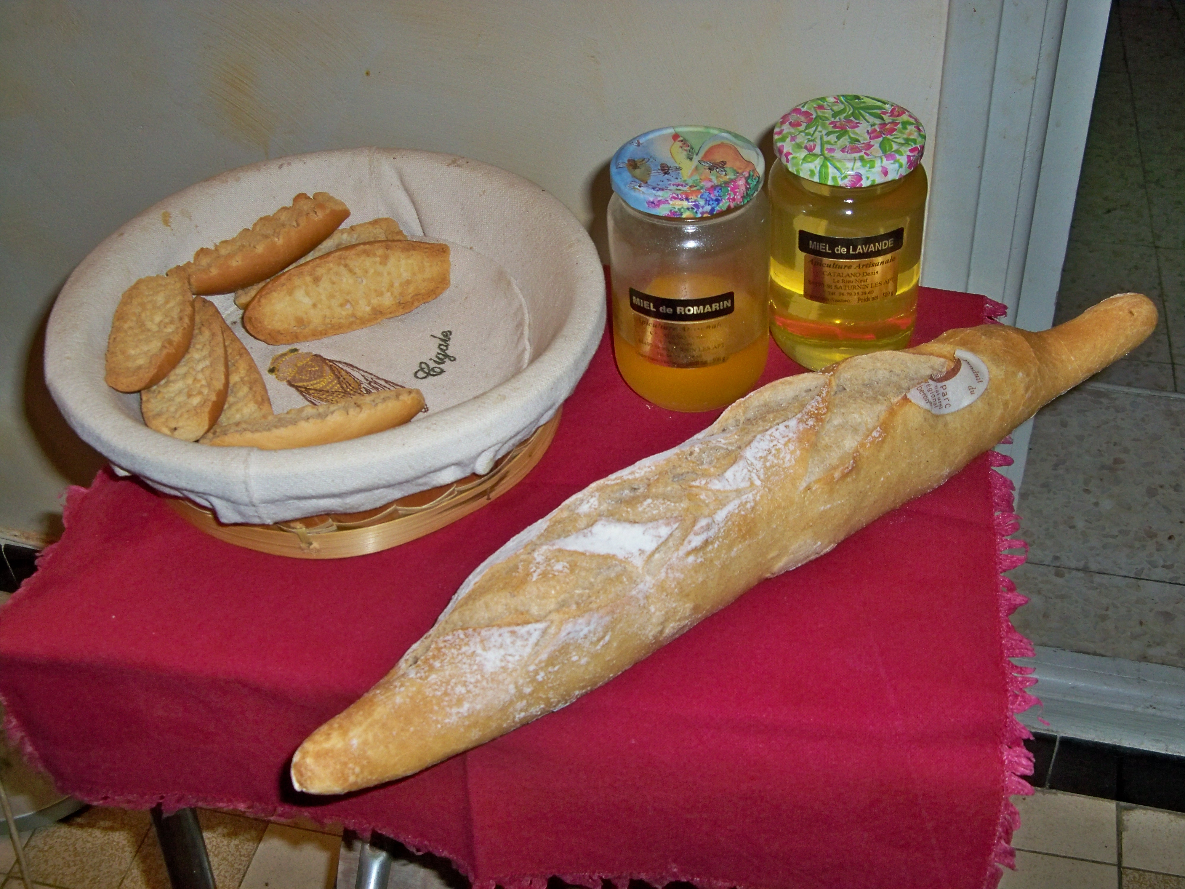 Luberon's Bread (Vaucluse, France) maked with an old fashion flour.